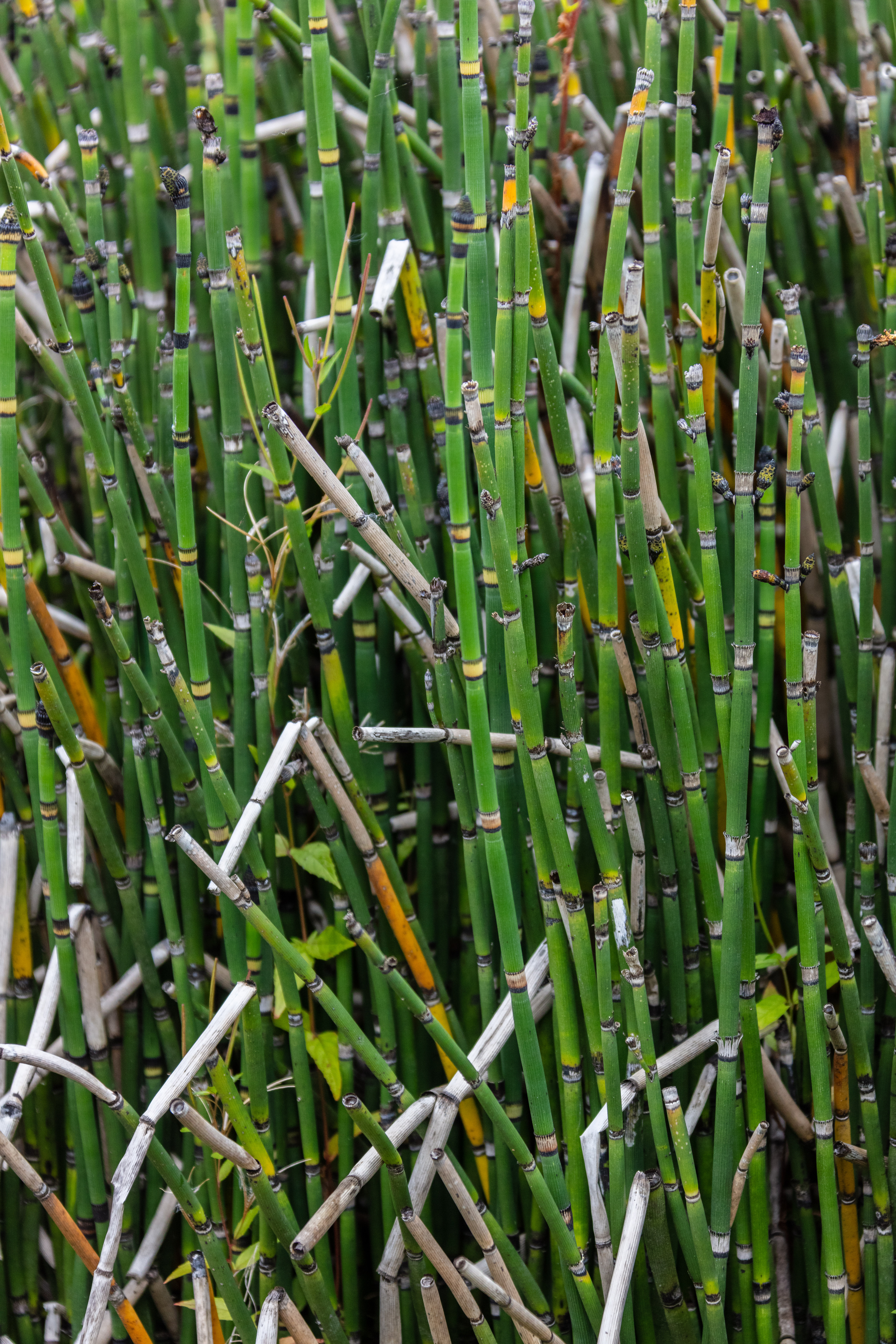 Scouring rush (Equisetum hyemale), Arctic-Alpine Botanic Garden, Tromsø, Norway